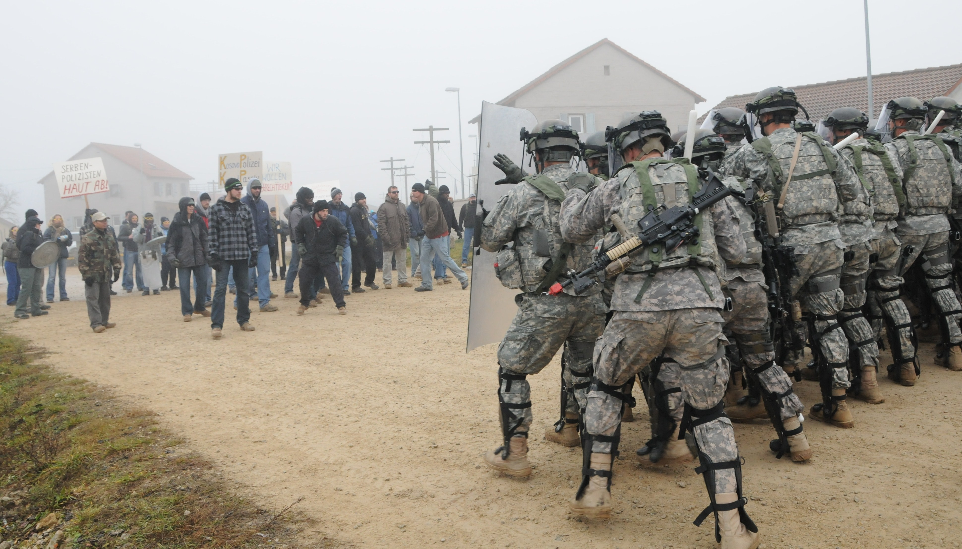 U.S. Army Soldiers from 3rd Battalion, 108 Infantry Regiment, Georgia National Guard, attempt to disperse angry citizens role-played by soldiers from 1st Battalion, 4th Infantry during a civil disturbance exercise at the Joint Multination Readiness Center in Hohenfels, Germany November 10, 2011. These Soldiers are participating in a Mission Readiness Exercise to prepare for deployment to Kosovo. (U.S. Army photo by Spc. Arnell Ord)